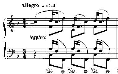 Excerpt form the beginning of the Étude Op. 25 No. 3 by Fryderyk Chopin.